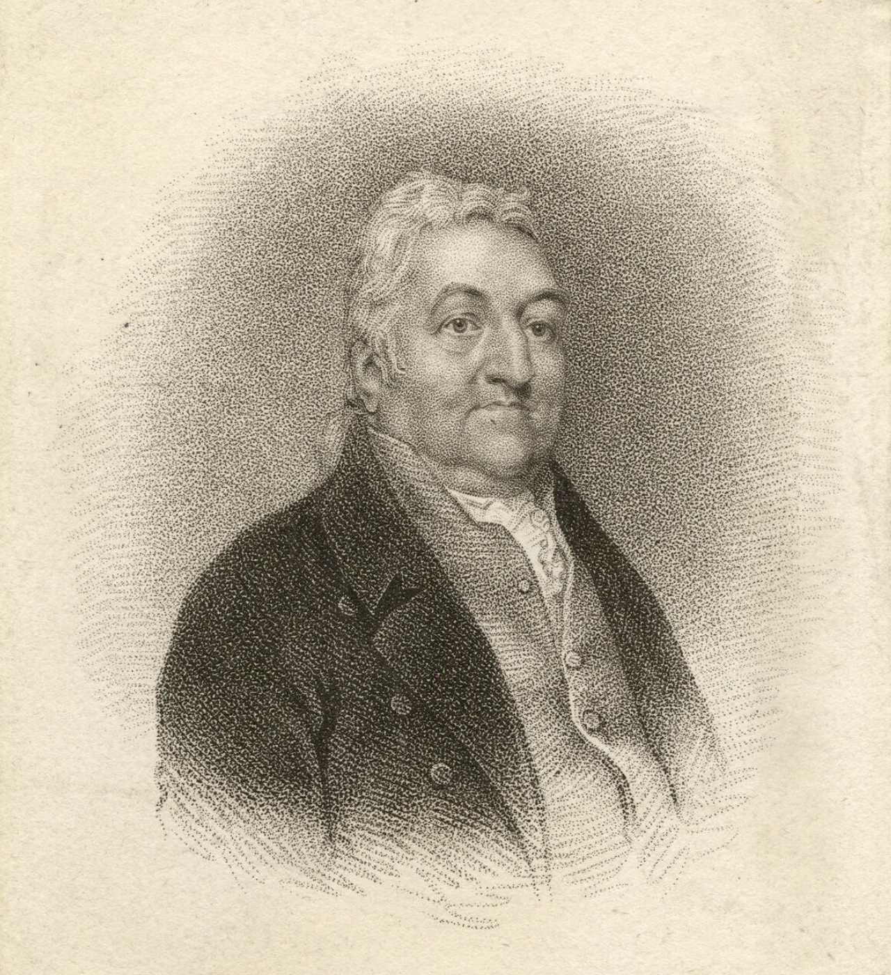 Portrait of John Stafford Smith by Thomas Illman after William Behnes